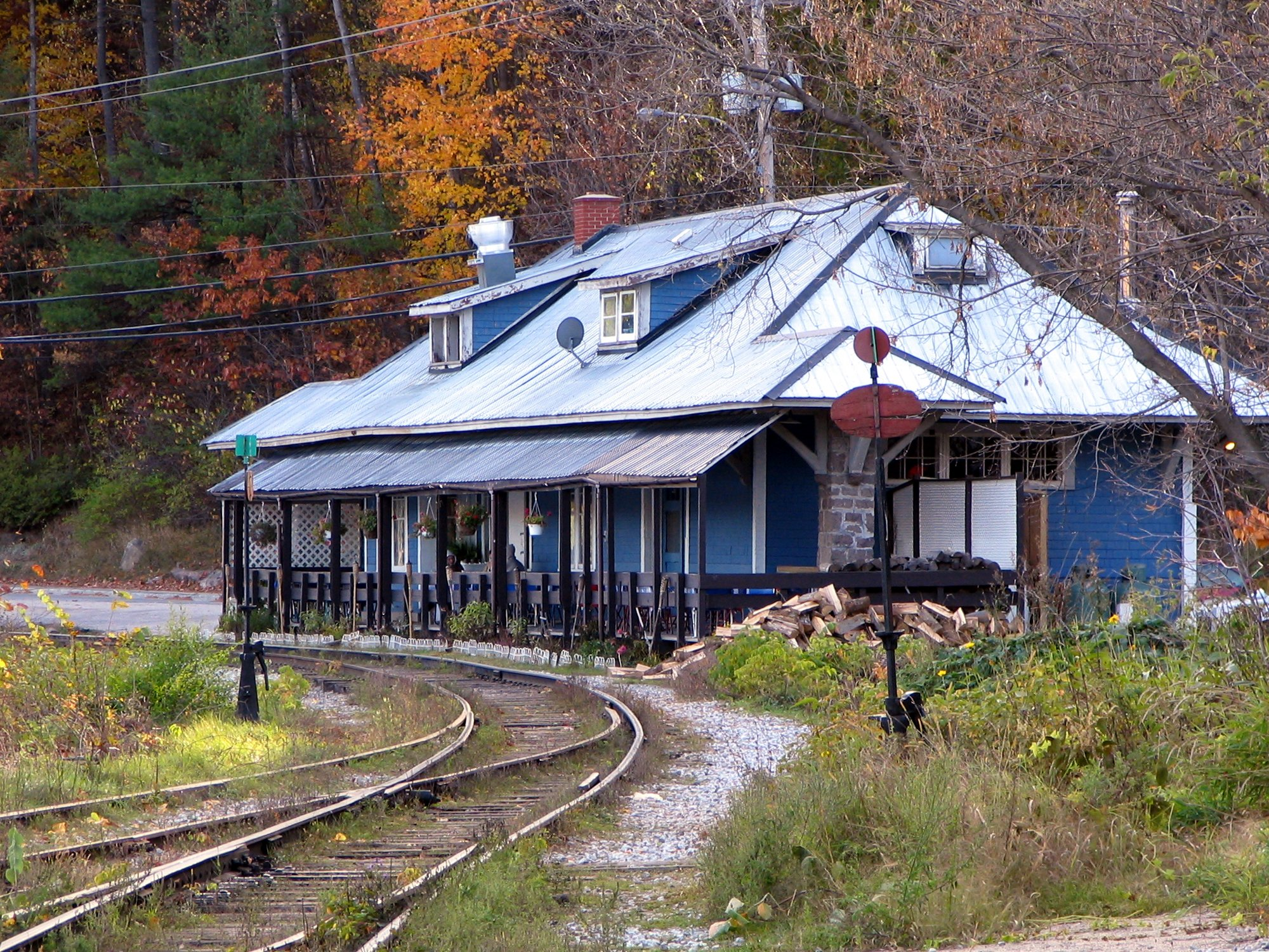 The Café Pot-Au-Feu restaurant is now located in the old Wakefield train station. 794 River Road Wakefield, Quebec, Canada (819) 459-2080